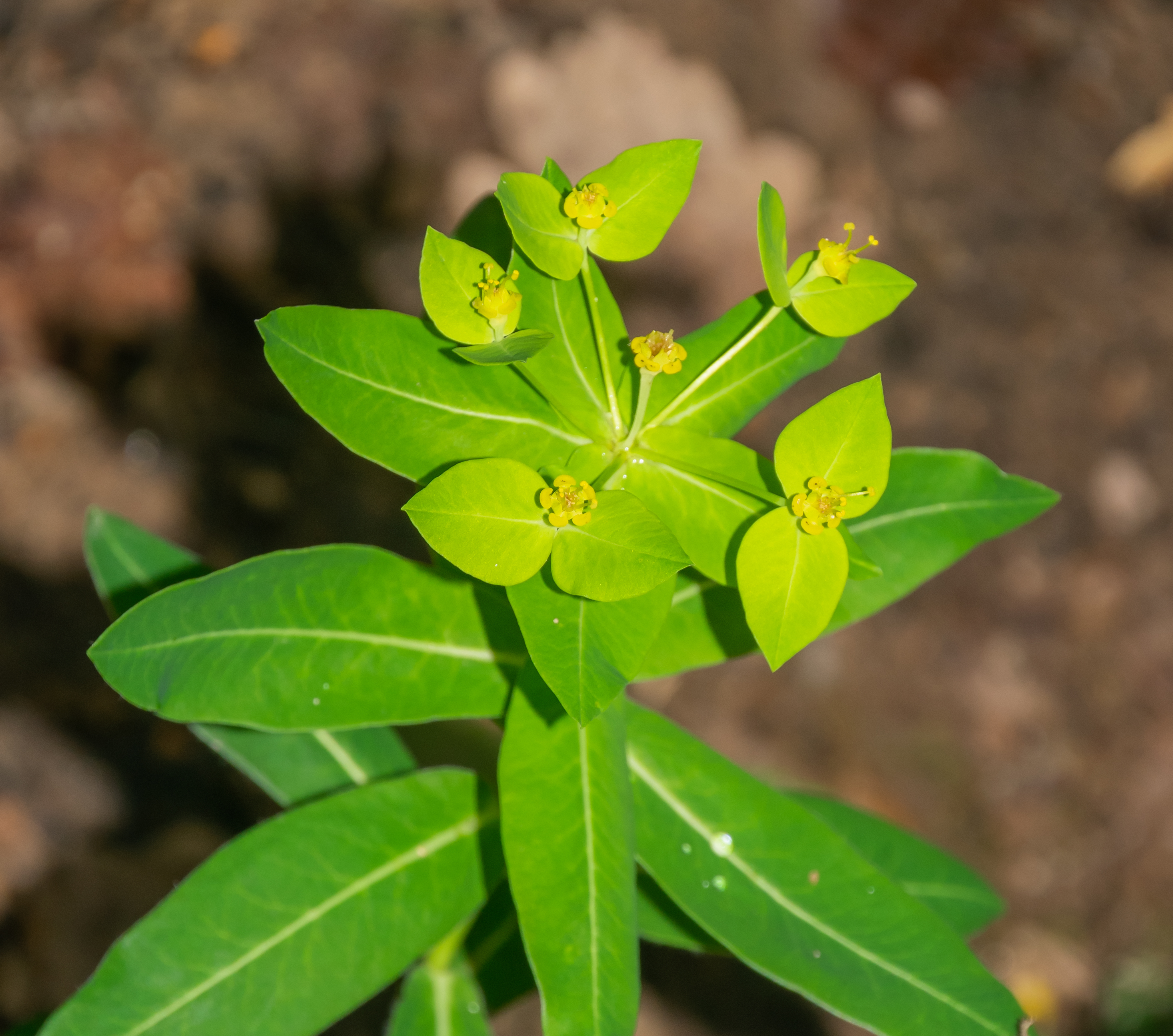 Euphorbia dulcis in Forêt des Palanges in commune of Agen-d’Aveyron, Aveyron, France